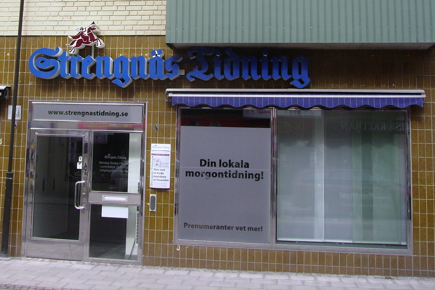 Picture of Strengnäs Tidning's (news paper) building in Strängnäs